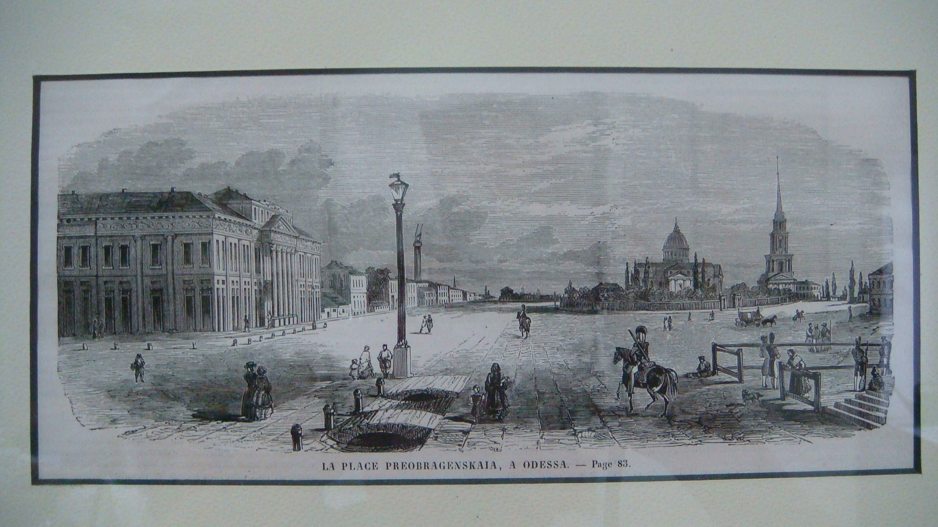 «Illustrated London News». 1854. Drawing shows Odessa in middle of XIX century